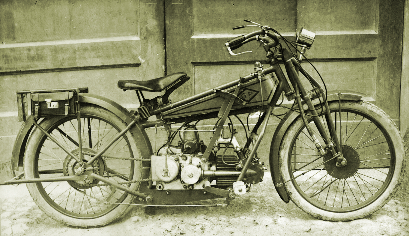 The prototype of the 1919 called GP (Guzzi-Parodi)